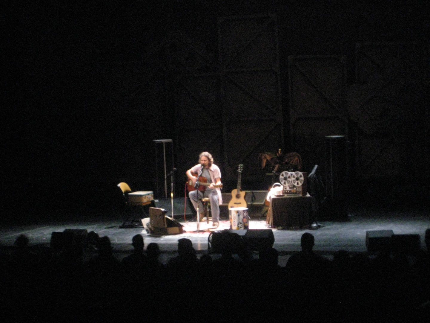 Eddie Vedder at Auditorium Theater